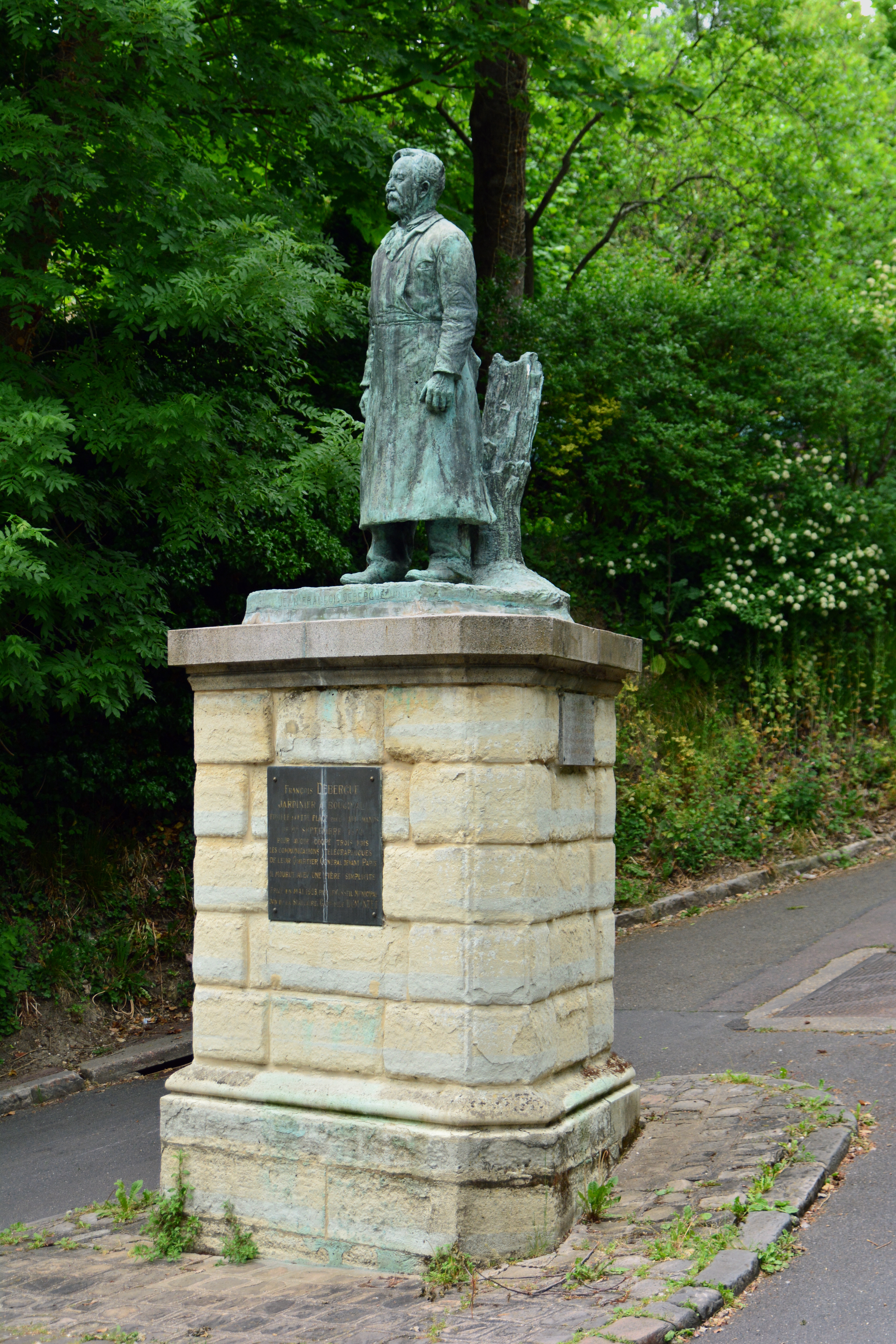 François Debergue is a victim of the prussian troops on Sept. 27th 1870 in Bougival, near Paris.